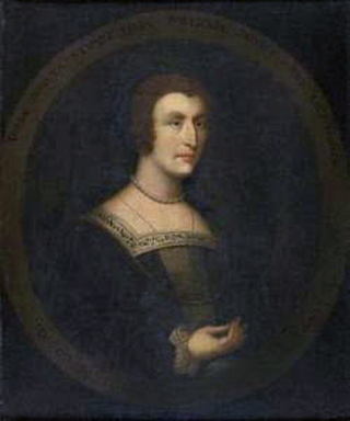 Janet Stewart, Lady Fleming (1502-1562), illegitimate daughter of James IV of Scotland, mistress to Henry II of France, portrait by George Jamesone (signed, oil on canvas, feigned oval 86cm x 74cm (34in x 29in)